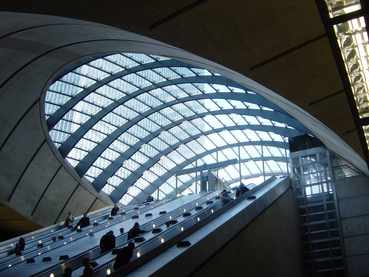 Photo By Neil Jones (me) 31/10/2003